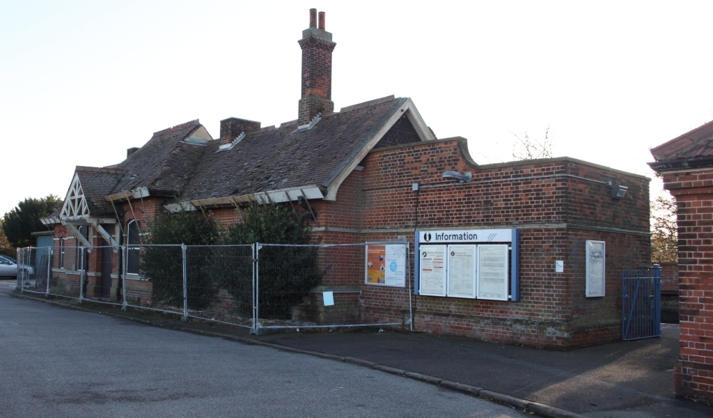 The derelict station building at Trimley in Suffolk, England. A local campaign is underway to restore it for community use. The station is still open and is served by an hourly service each way between Ipswich and Felixstowe.